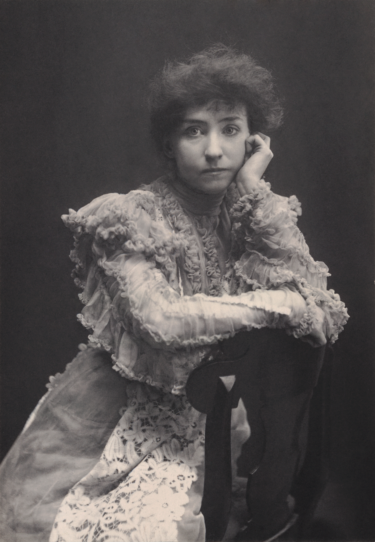 Title: Mrs. Fiske, "Love finds the way" / Zaida Ben Yusuf. Abstract/medium: 1 photographic print.